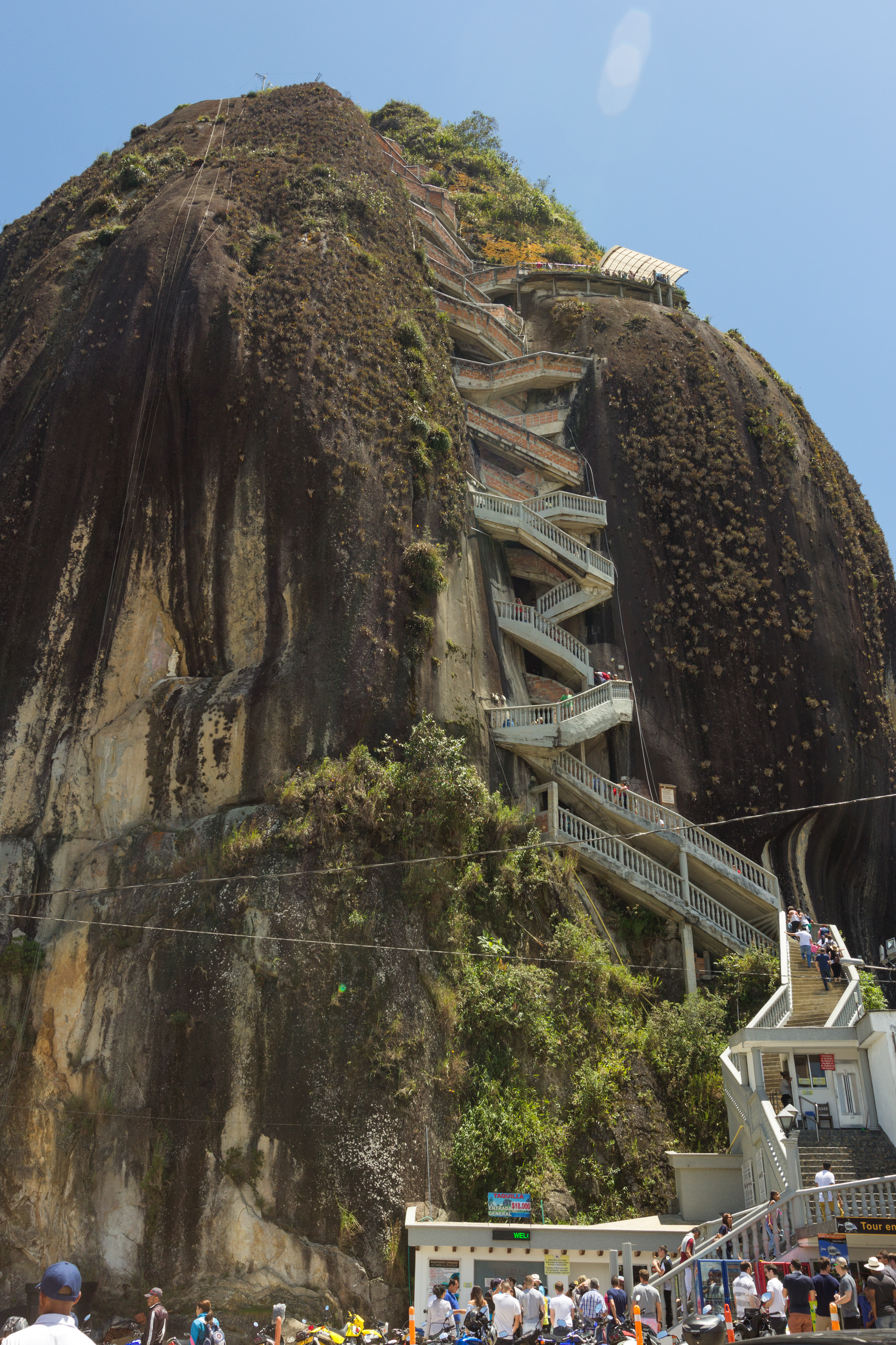 El Peñol de Guatapé (The Rock of Guatape), from the north side; Guatapé, Antioquia department, Colombia.